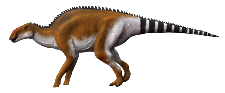 Restoration of Brachylophosaurus canadensis